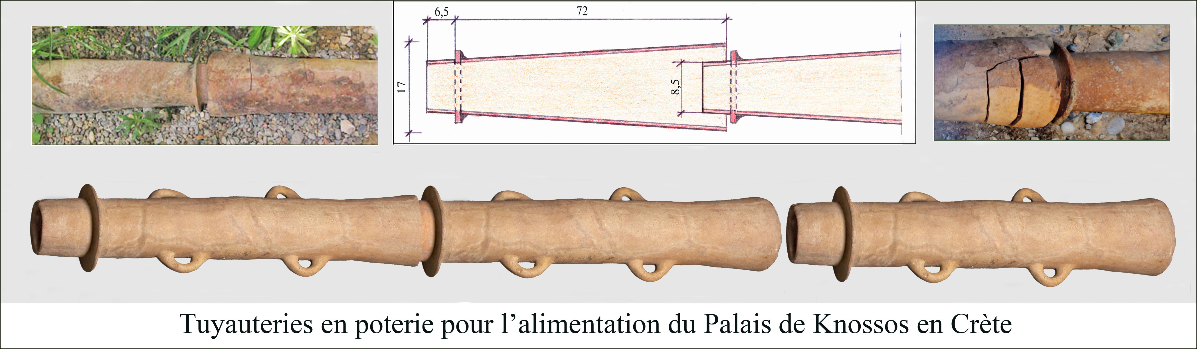 Terracotta pipes and junctions on the pressurized water network at Knossos.